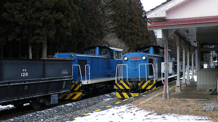 Limestones freight train is passing through Hikoroichi Sta., Iwate, Japan.